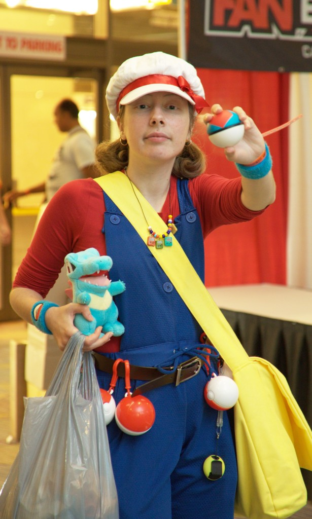 A cosplayer portraying Lyra